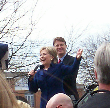 Hillary Clinton and Evan Bayh campaigning in Terre Haute, Indiana.